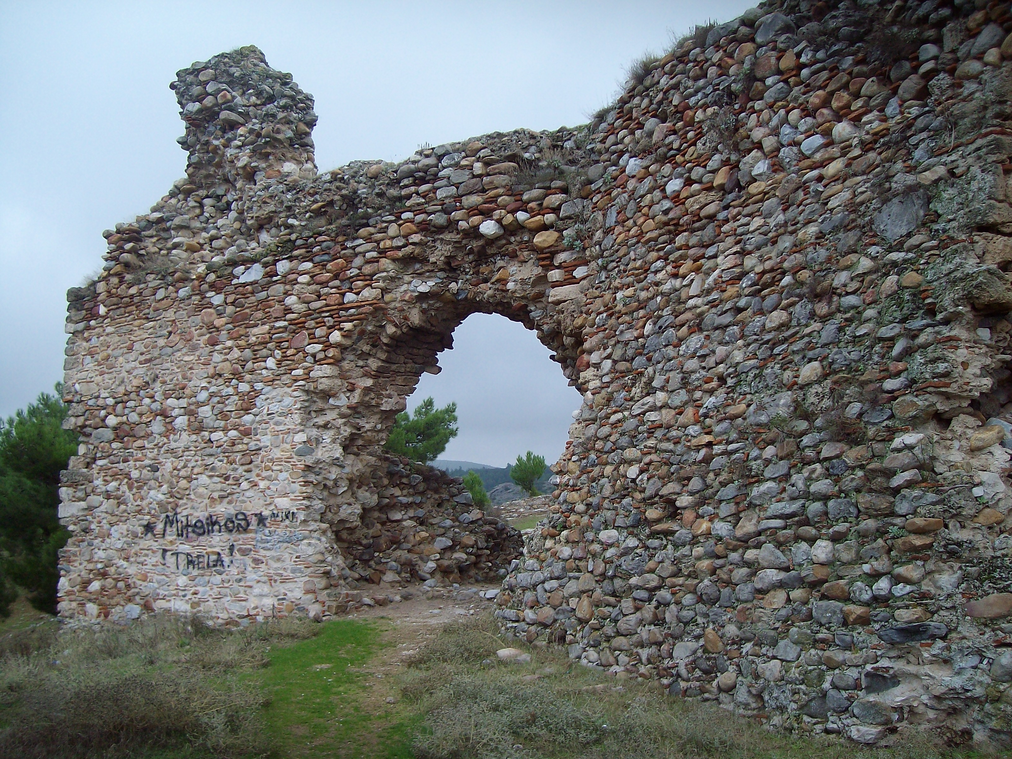 Fortress in Sidirokastro